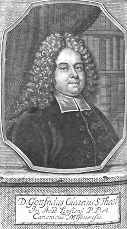 Gottfried Olearius (1672-1715) Philologist and Protestant Thelogian from Germany